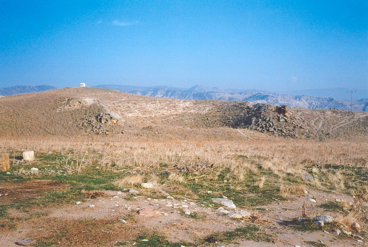 View of the ancient theater of Tripolis